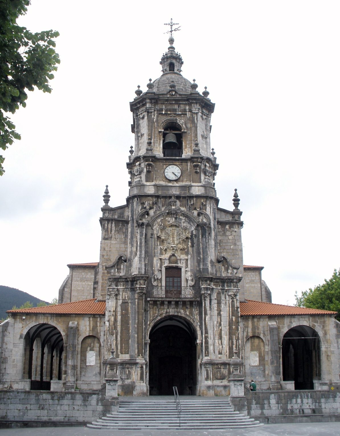 Iglesia de San Martín de Tours, en Andoain (Guipúzcoa, País Vasco, España)